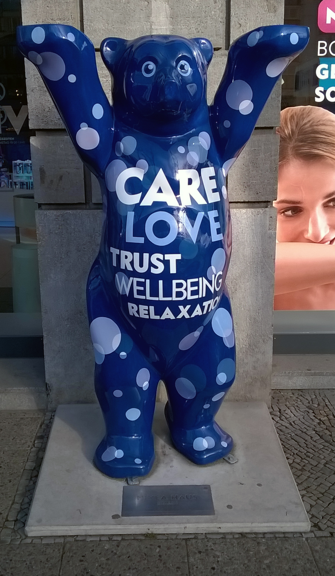 Nivea-Bär, Unter den Linden 28, Berlin-Mitte, Germany